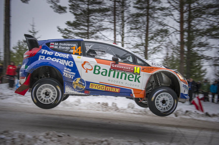 Rally Sweden 2014 Ford Fiesta RS WRC,M-Sport WRT,M-Sport World Rally Team,Maciej Baran,Michal Solowow,Motorsport,Rally,Rally Sweden,Rallye,Rallye Schweden,Shakedown